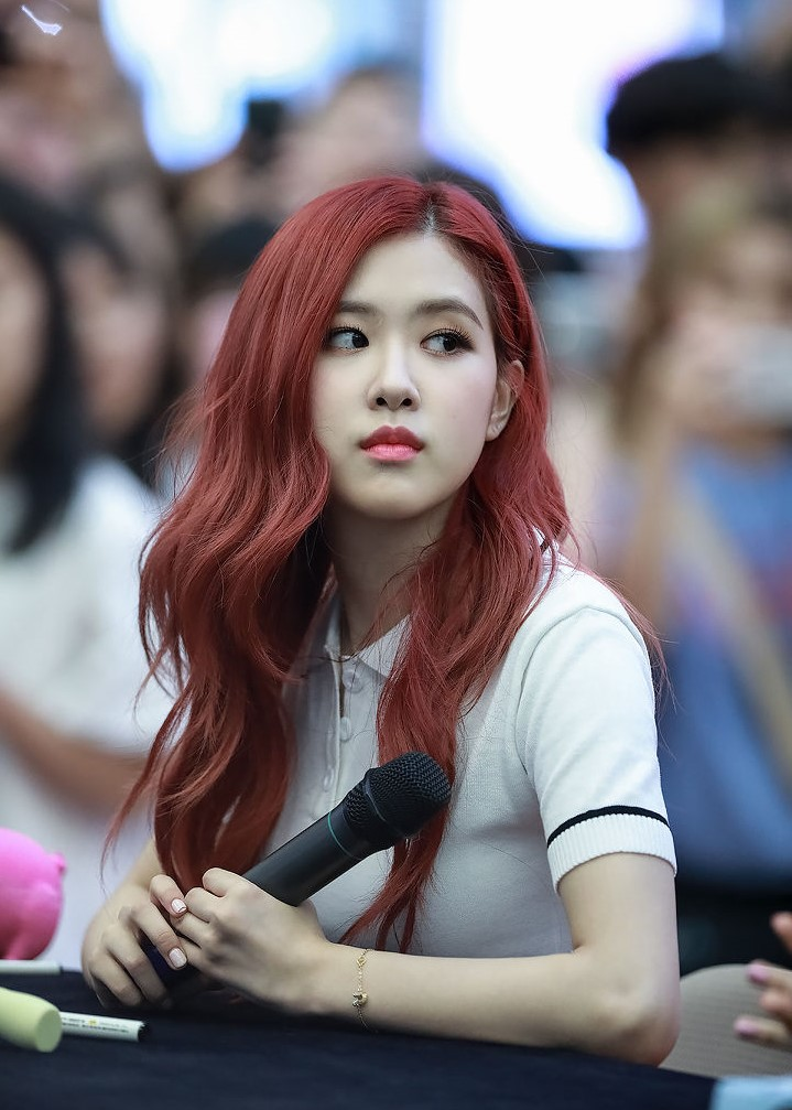 BLACKPINK fansign event at the AK Plaza in Bundang.